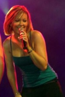 Cropped version of Image:Atomic Kitten in concert.jpg, since the original picture is licensed under GFDL it allows for modifications.